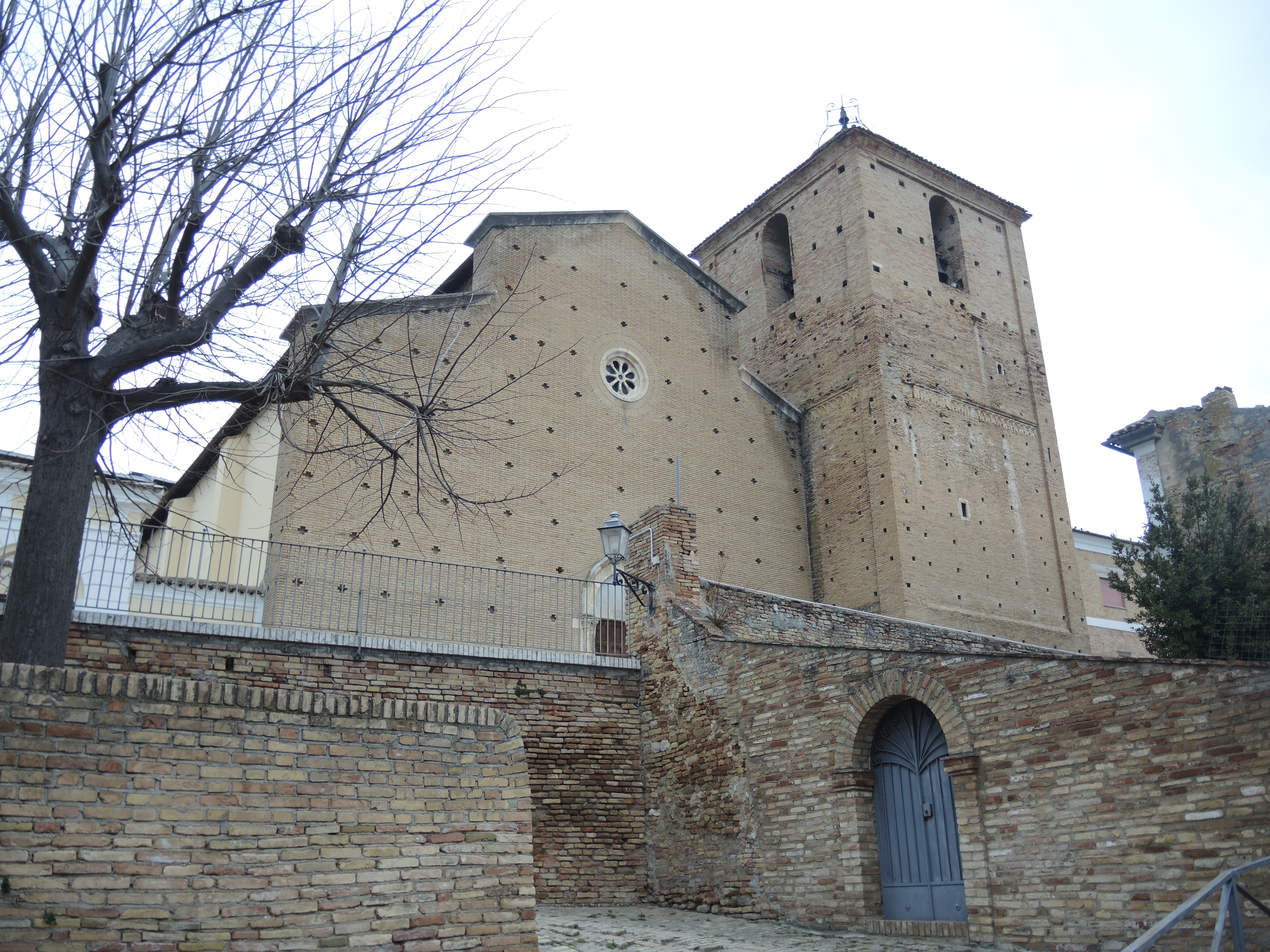 Penne: Duomo di San Massimo